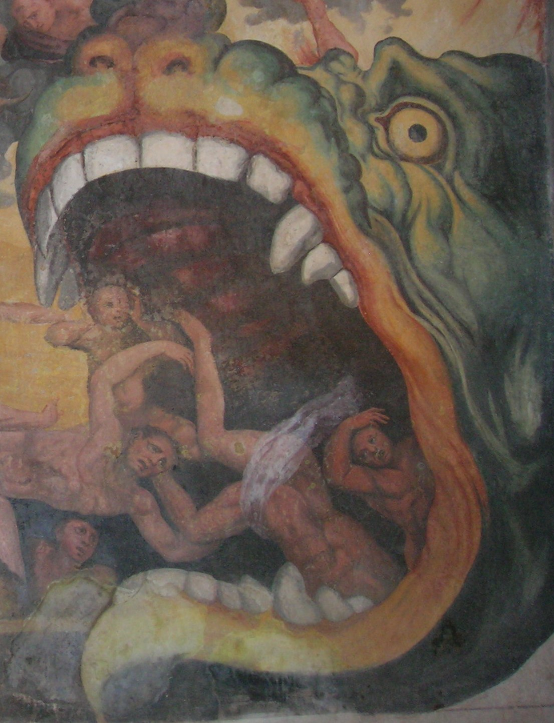 Leviathan in the fresco "The Last Judgment" (Giudizio Universale), particular; painted by Giacomo Rossignolo (1524-1604) - Madonna dei Boschi, Boves (CN), Italy